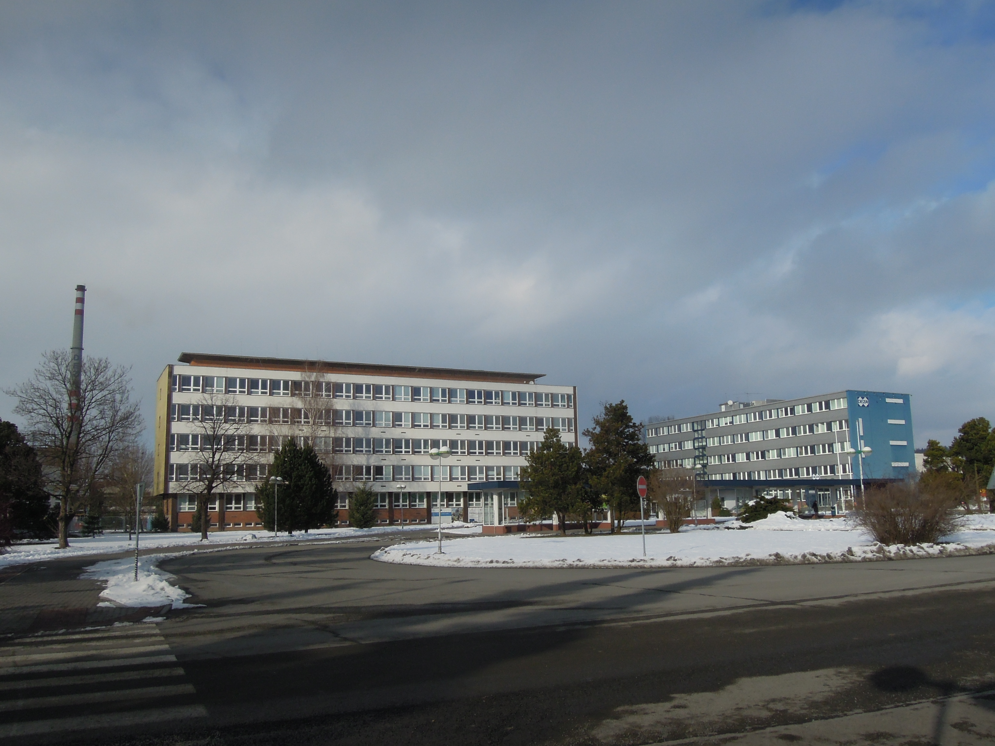 DEZA company in Valašské Meziříčí, Vsetín District, Zlín Region, Czech Republic